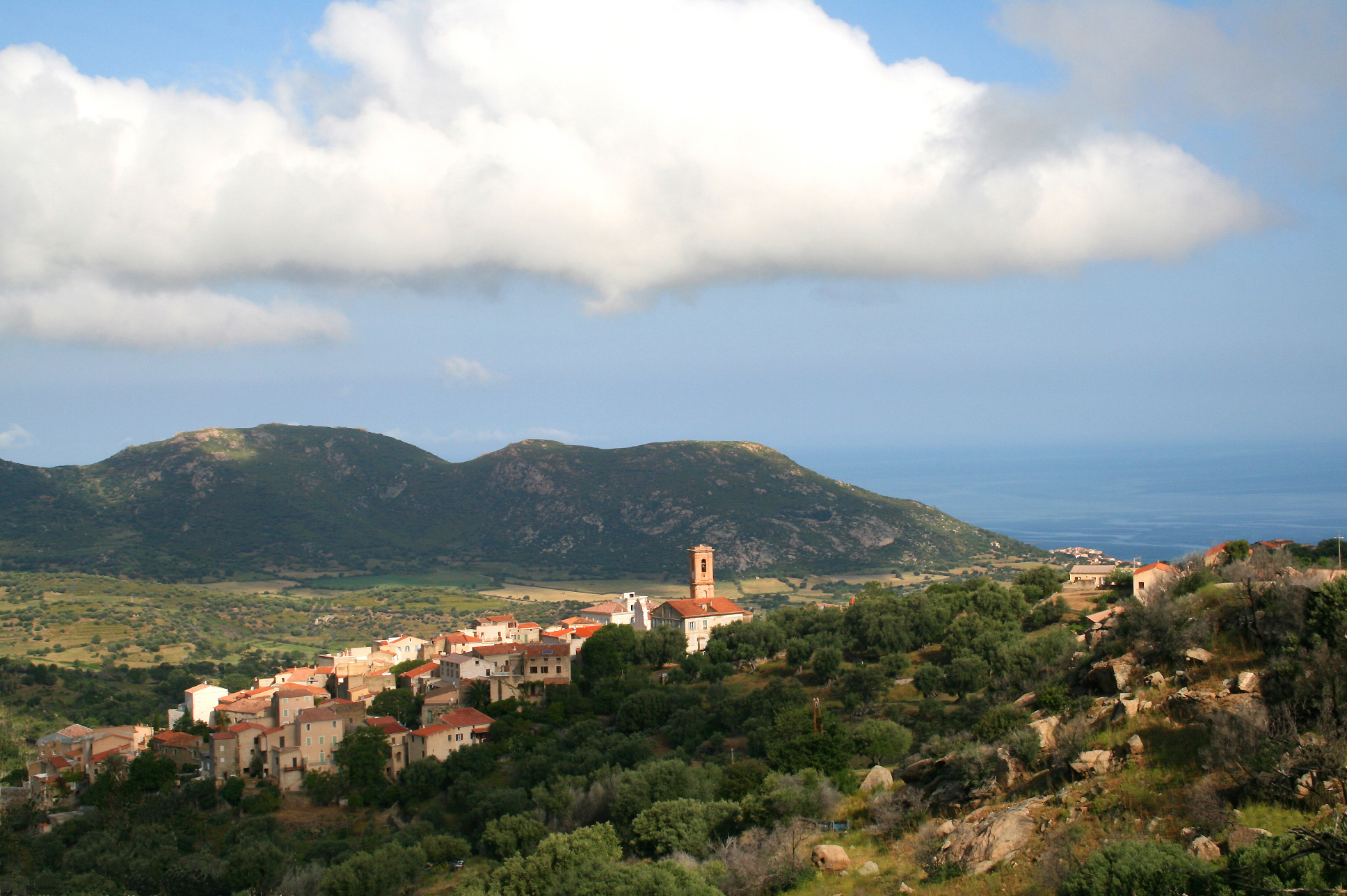 Aregno France (Haute-Corse), the village. Walon: Aregno France (Ôte-Corse), li viyadje.